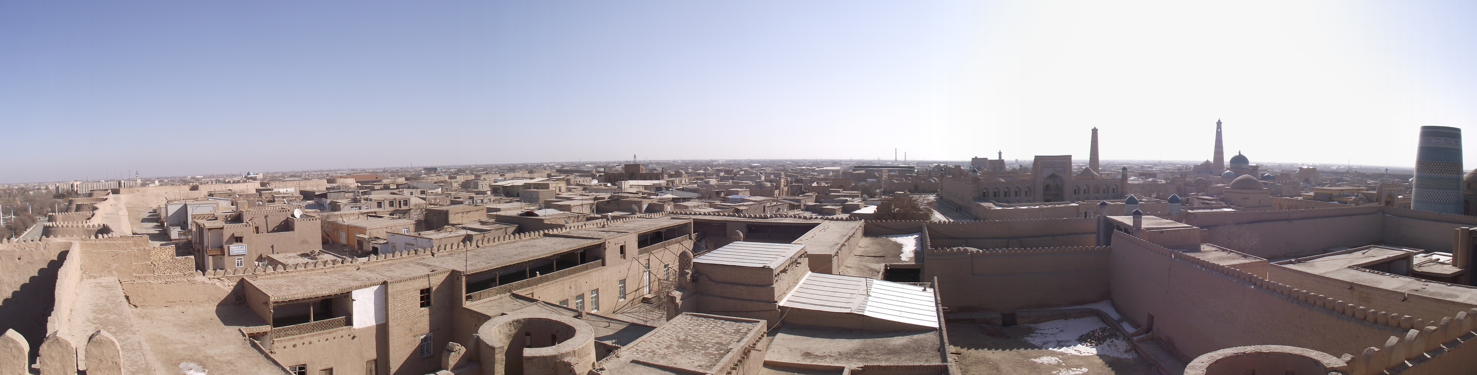 panorama of Khiva (Uz)